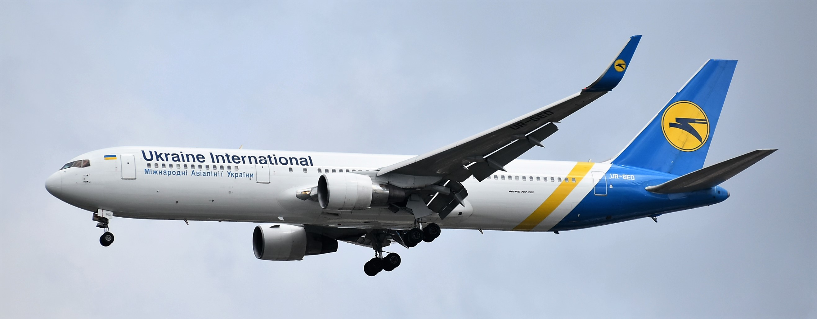 Boeing 767/3 of Ukraine International Airlines on final approach to rwy.19R at Bangkok-BKK,Thailand, 18/05/17.